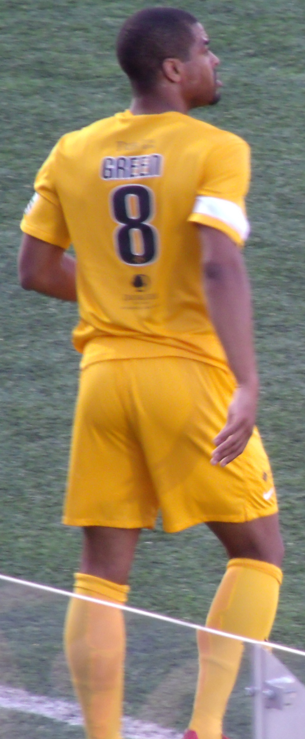 Michael Green, Pittsburgh Riverhounds vs. Wilmington Hammerheads 4/12/14